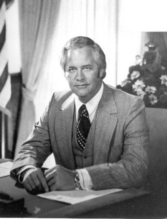 Speaker of the Florida House of Reps. Donald L. Tucker